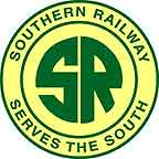 Logo of the Southern Railway (US)